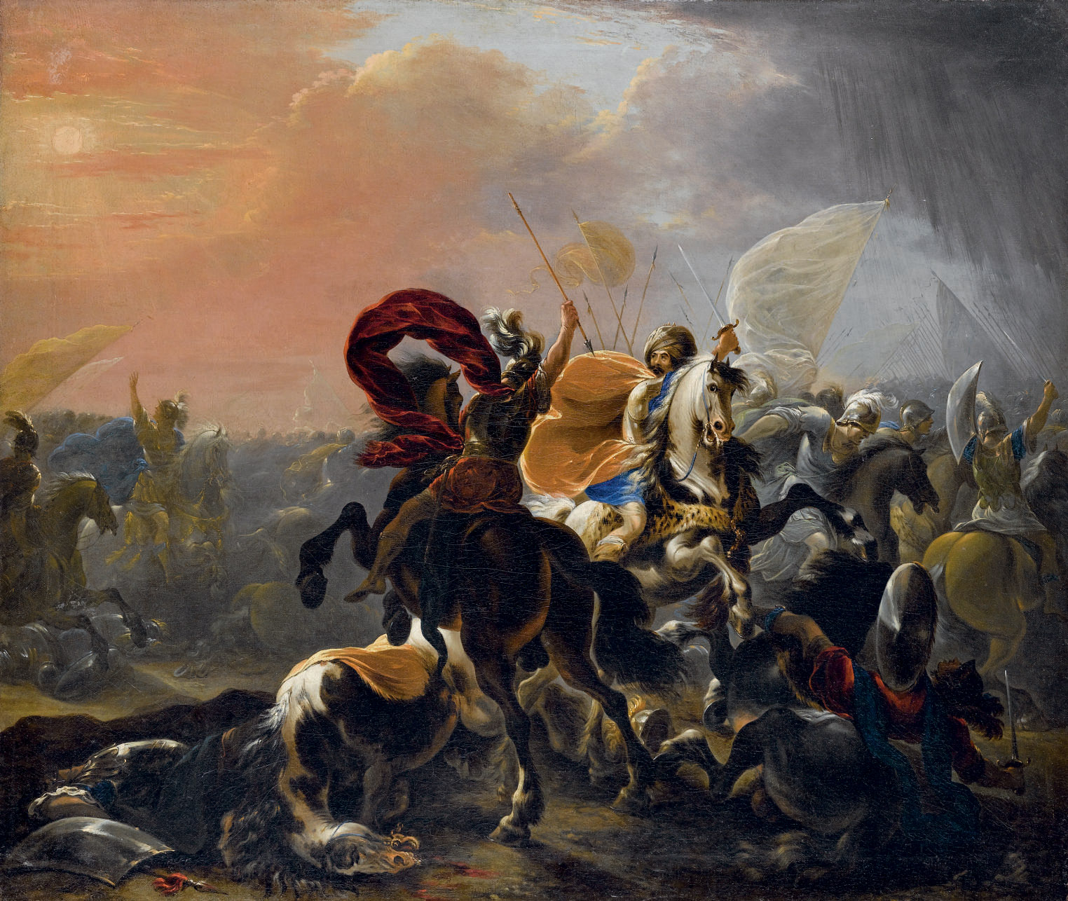 Battle between Turkish and Christian horsemen, by Vincent Adriaenssen, oil on canvas, 90x110 cm